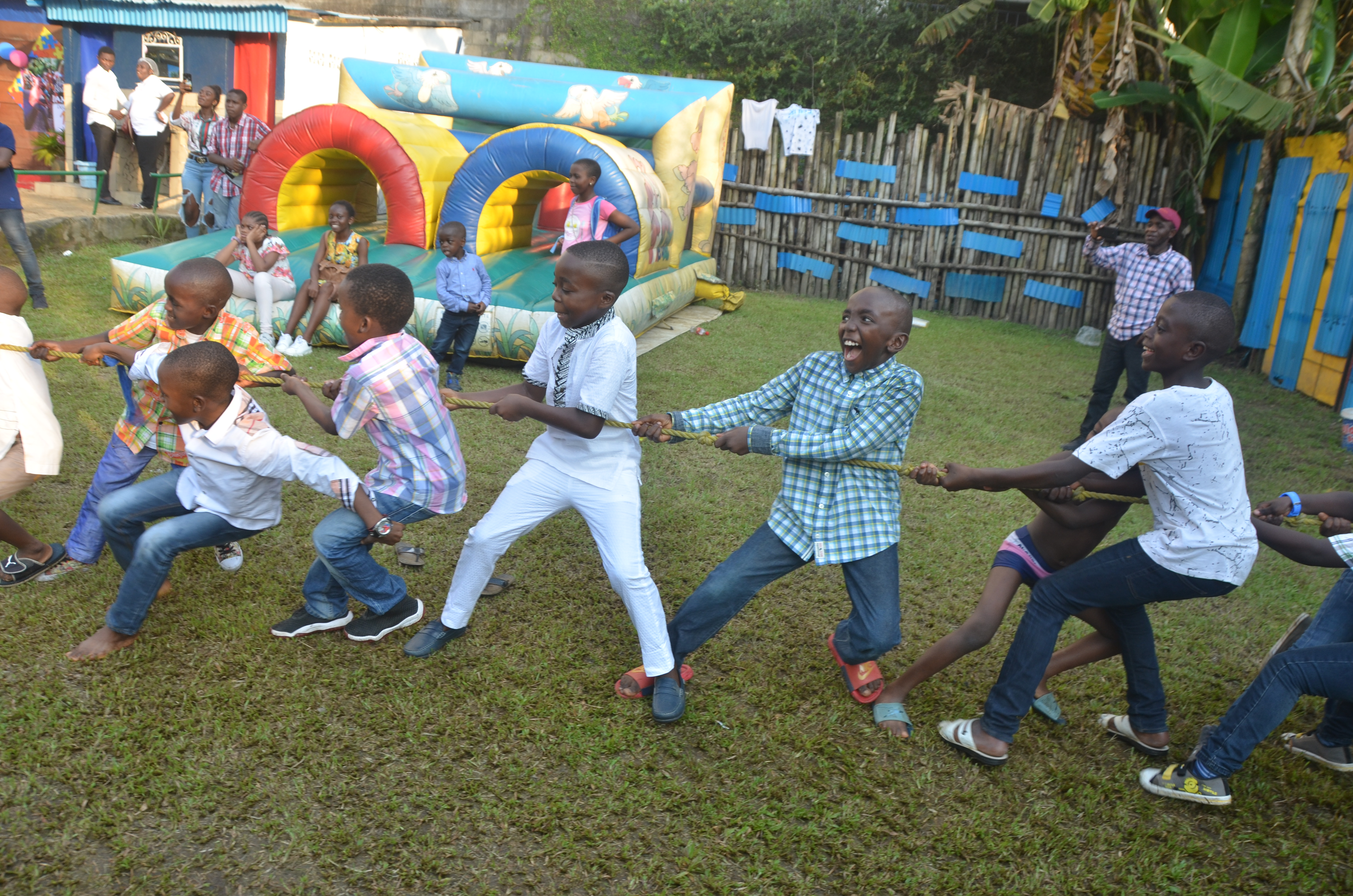 This is an image with the theme "Play" from: Cameroon